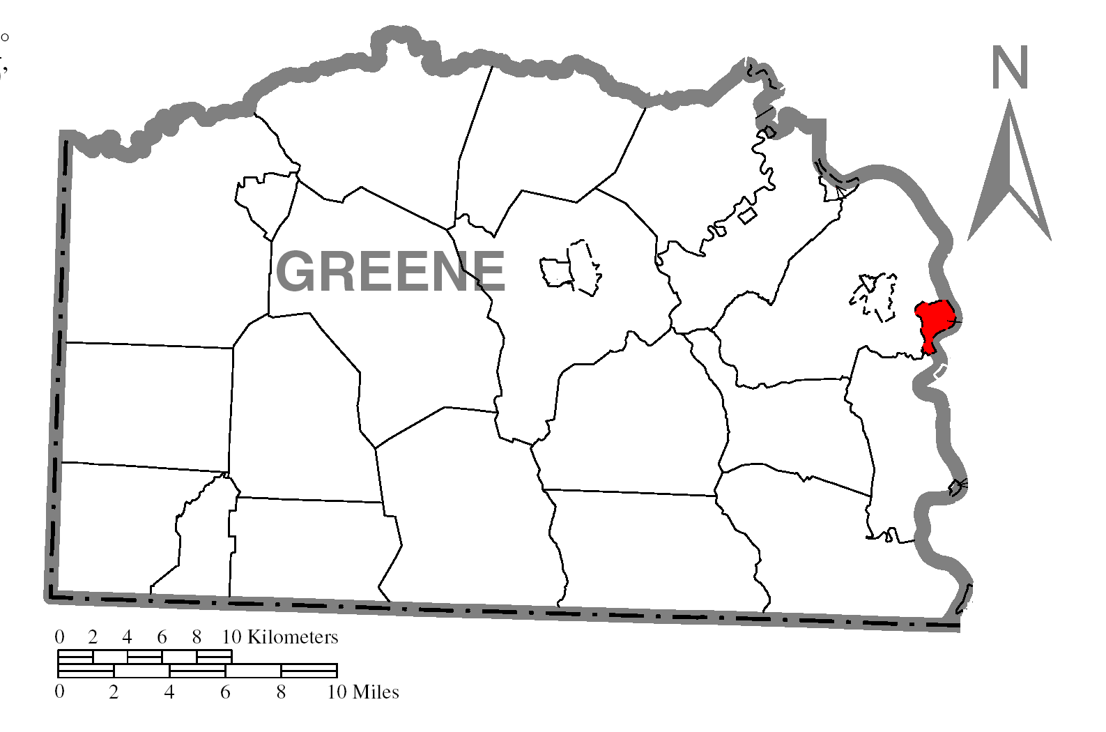 Map of Greene County higlighting Nemacolon.